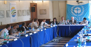 The International Resource Panel at work